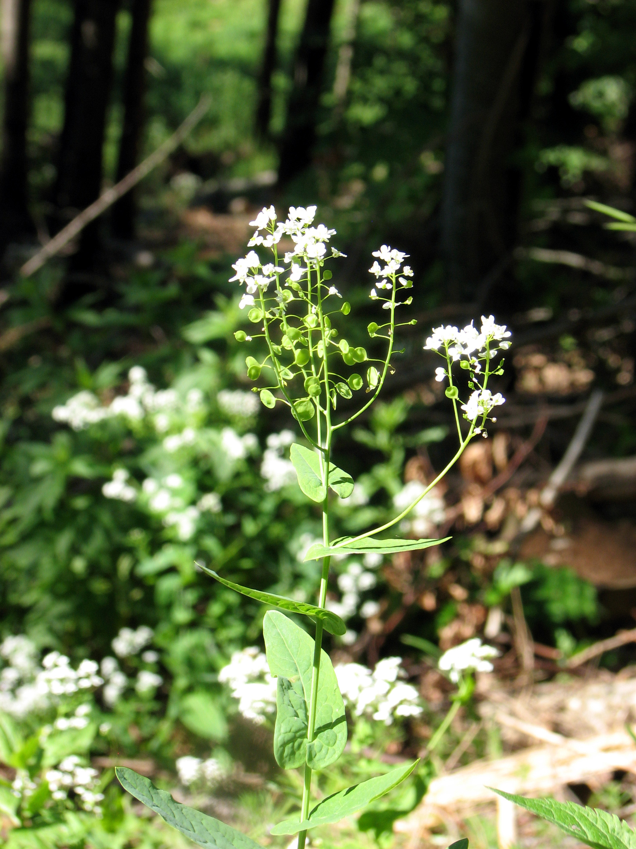 Peltaria alliacea found at Niederschoeckel near Graz (Styria), Austria